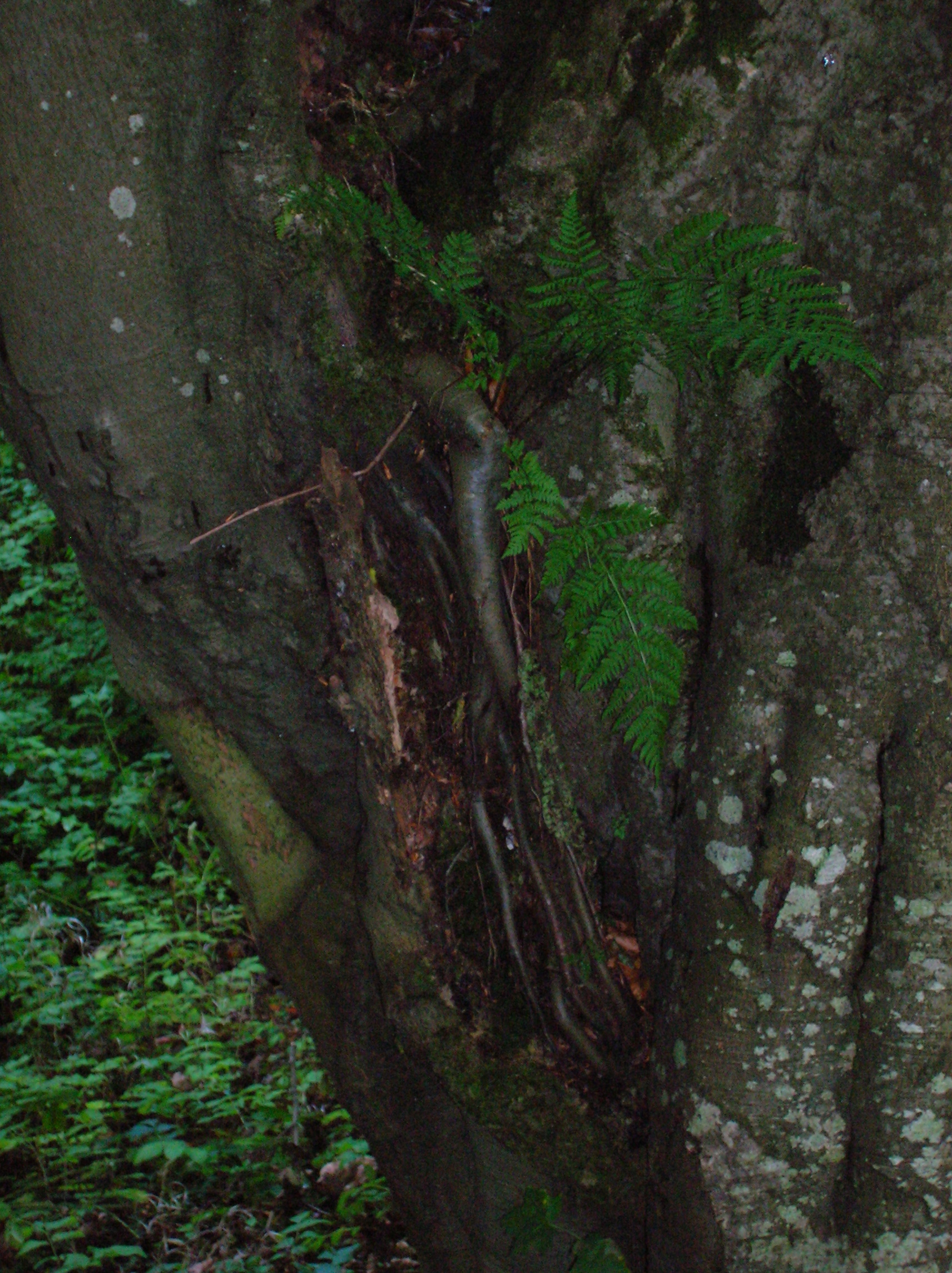 Aerial roots growing out of a beech tree trunk.